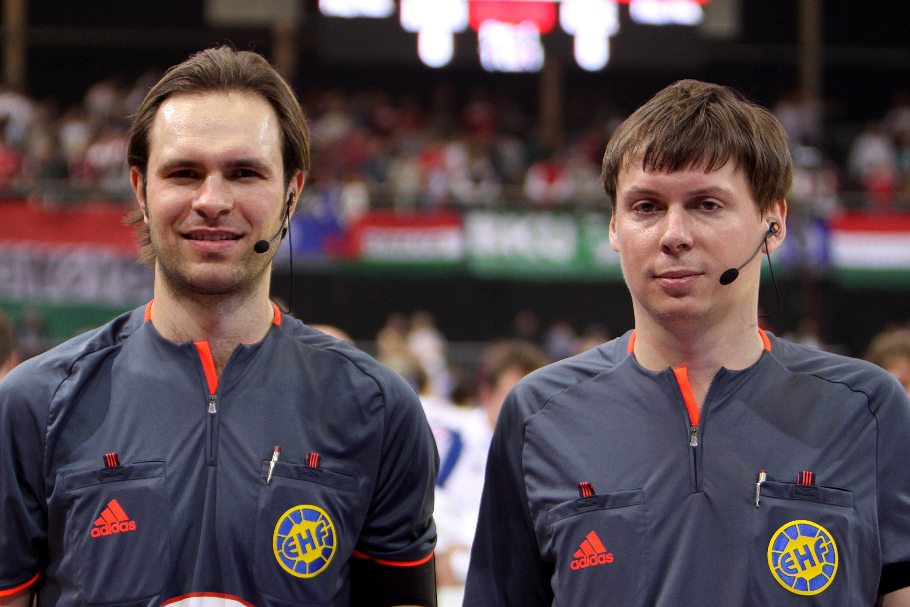 Siarhei Repkin (left) and Andrei Gousko (Belarus), international handball referees.